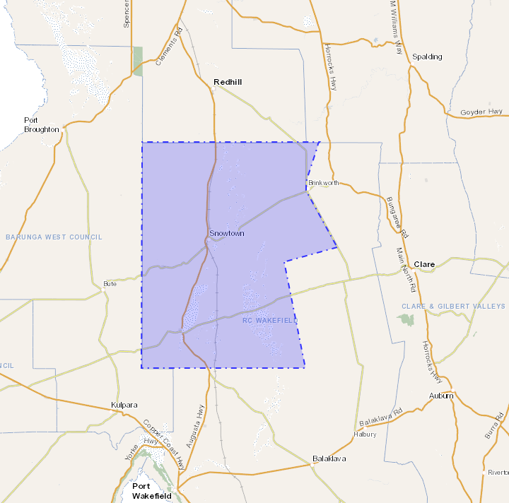 Map showing bounds of Snotown District Council in 1909. Rights note: Created by tracing over free (CC-BY 4.0) map imagery provided by the Government of South Australia at .au/plb and .au